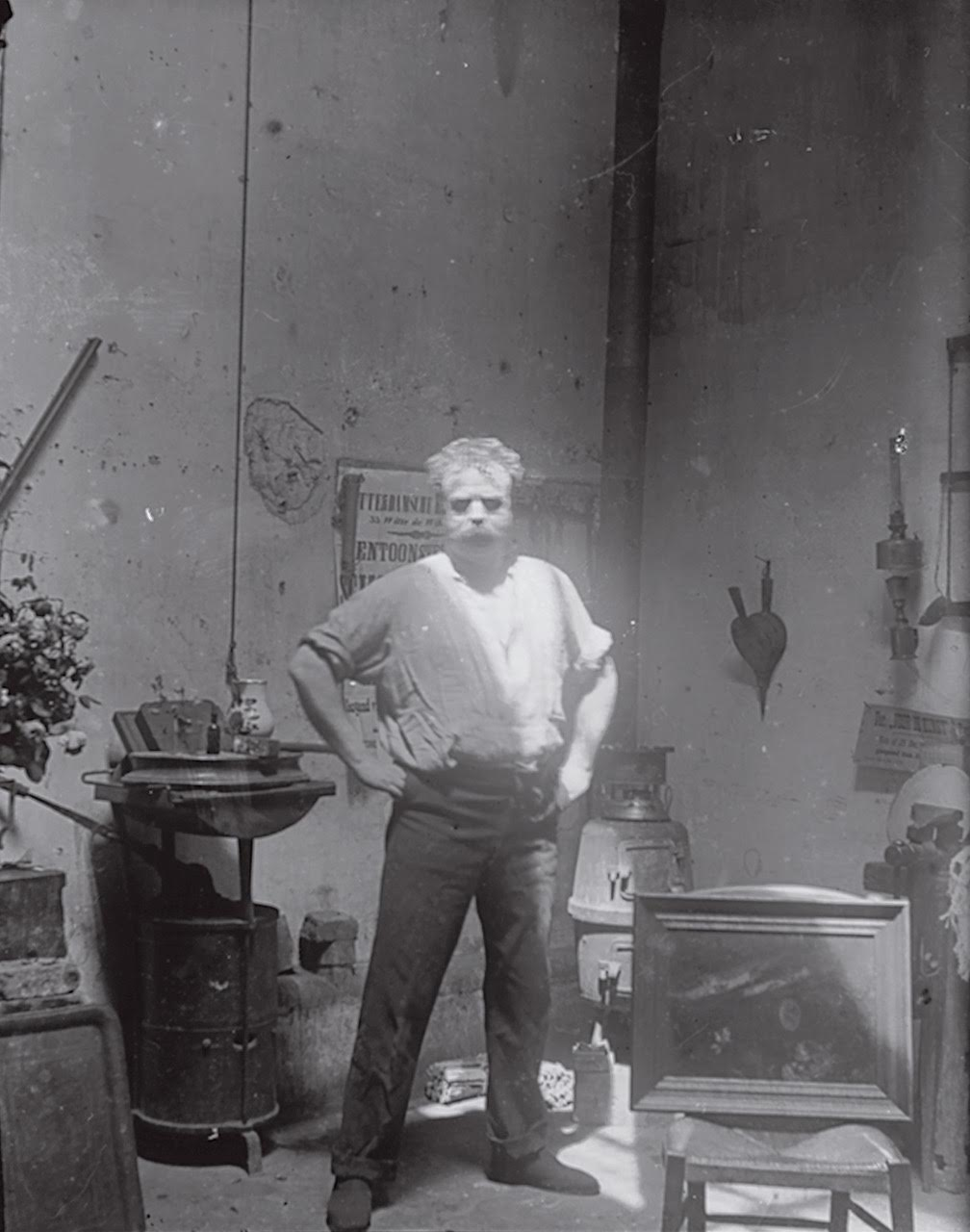 A photographic self-portrait by Medardo Rosso, taken after 1901 in the studio on the Boulevard des Batignolles.